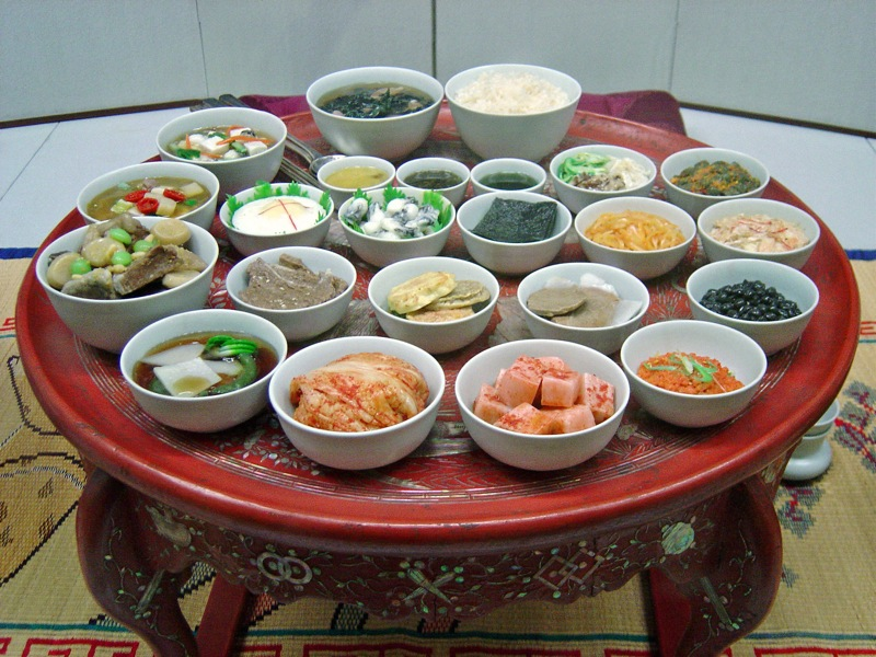 Hanjungsik, which is one of the Korean formal cuisine.